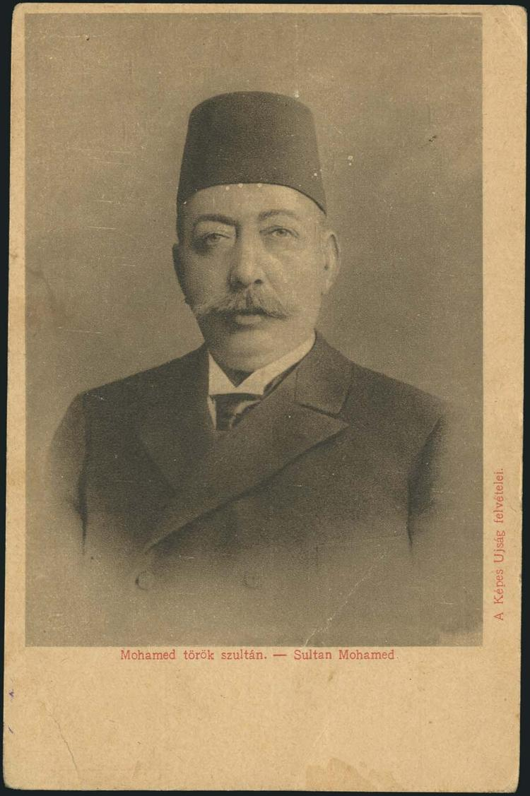 Sultan Mohamed